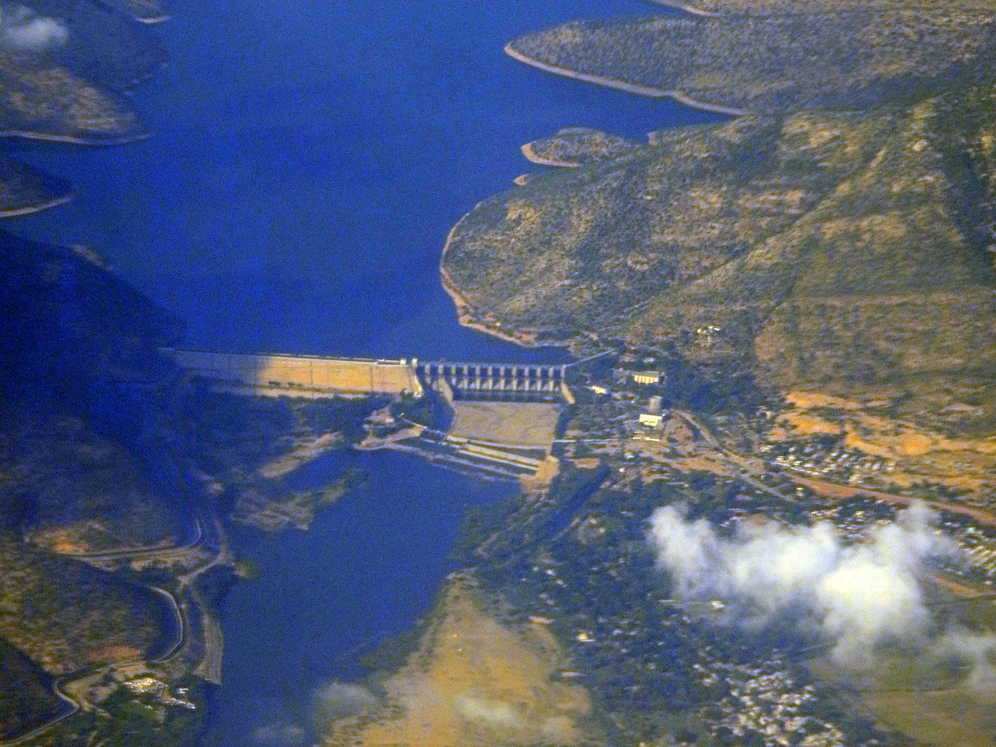 Aerial photograph of Somasila Dam, in Andhra Pradesh, India.